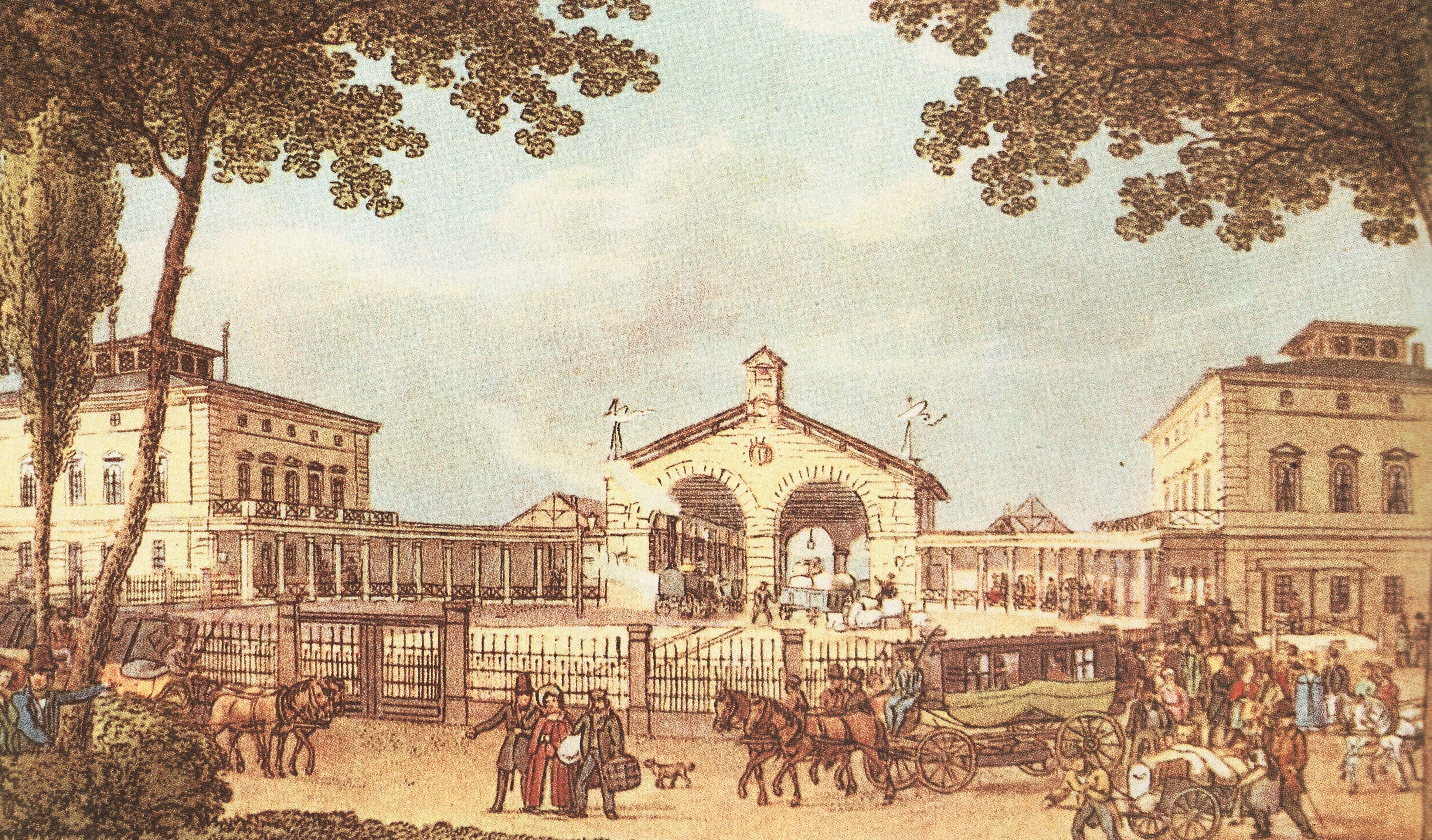 Station Leipziger Bahnhof in Dresden around 1839